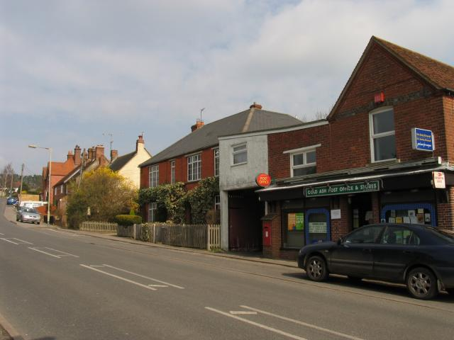 Cold Ash Post Office. The Post office is situated in the south western section of the square.